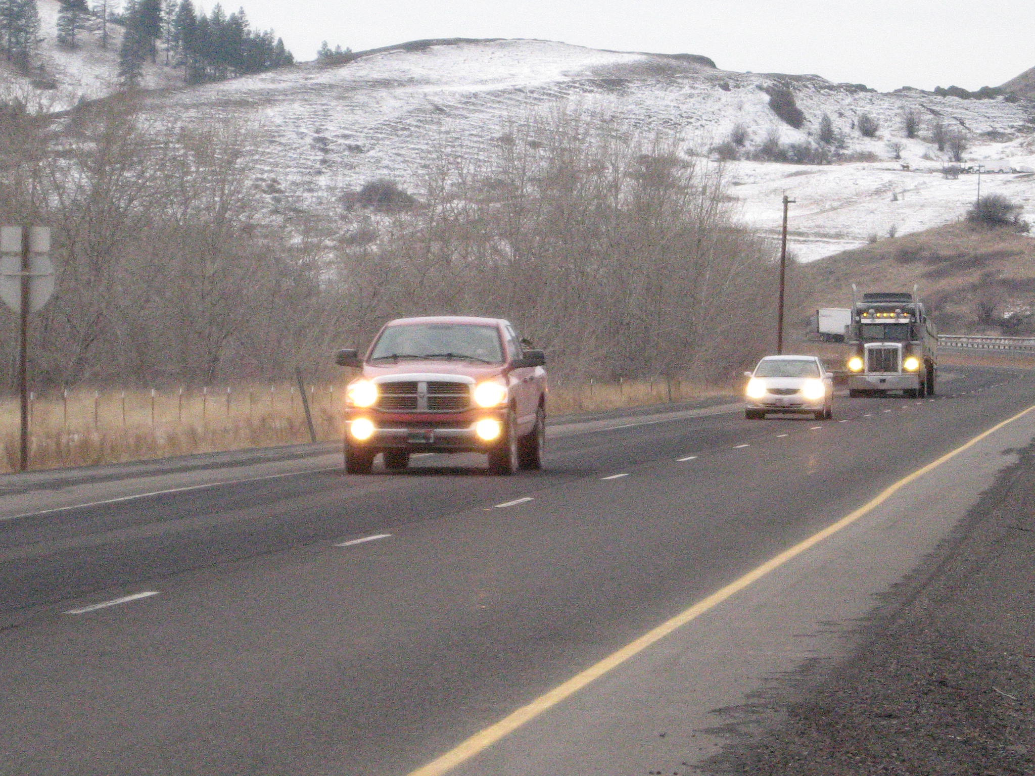 Pick up with fog lights